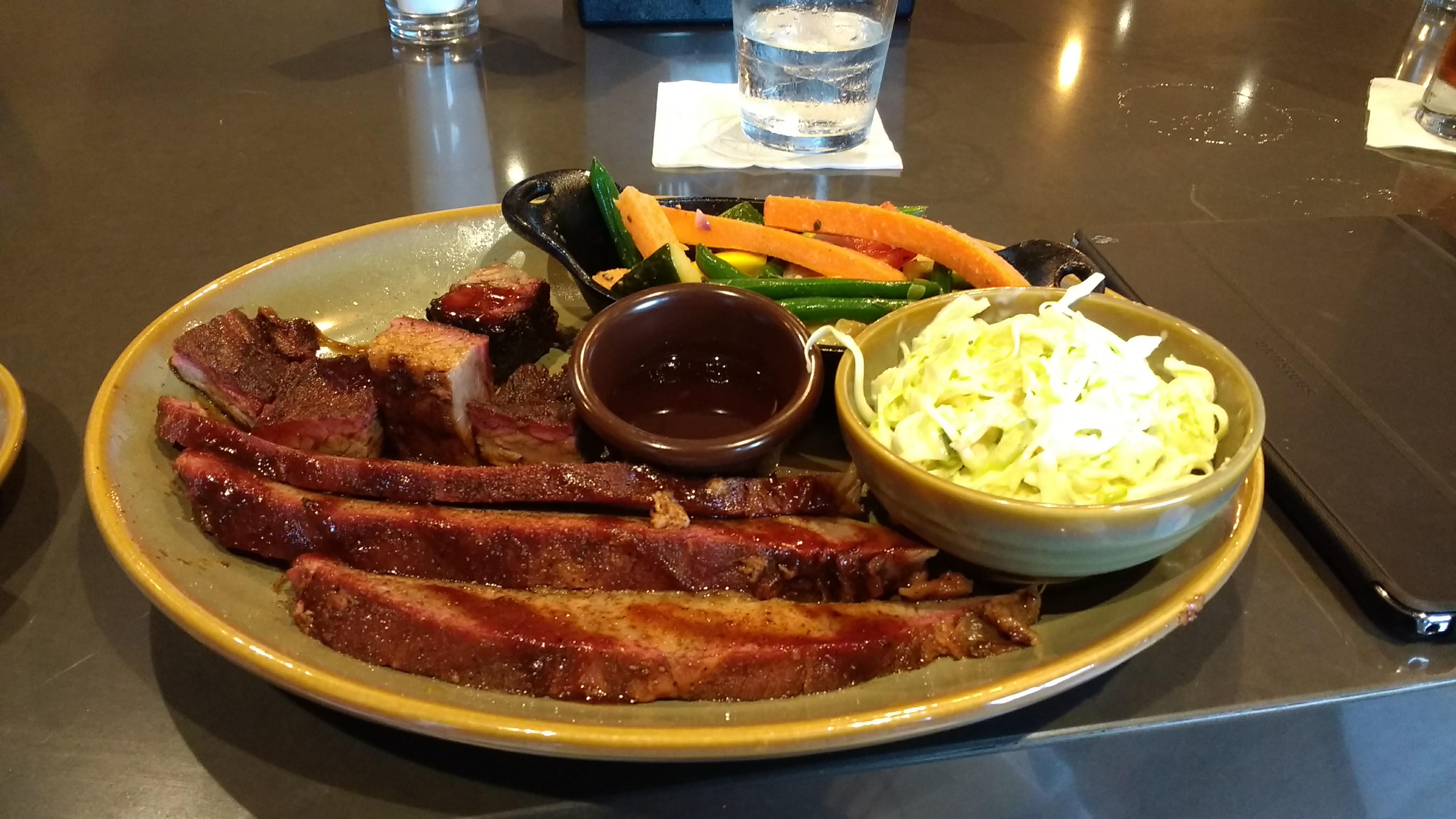 Angus Beef brisket and burnt ends dinner from the Q39 restaurant in Kansas City.